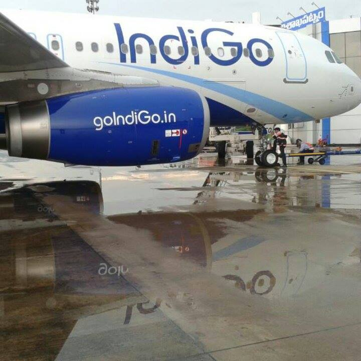 a320 aircraft of IndiGo Airlines on the Jetway